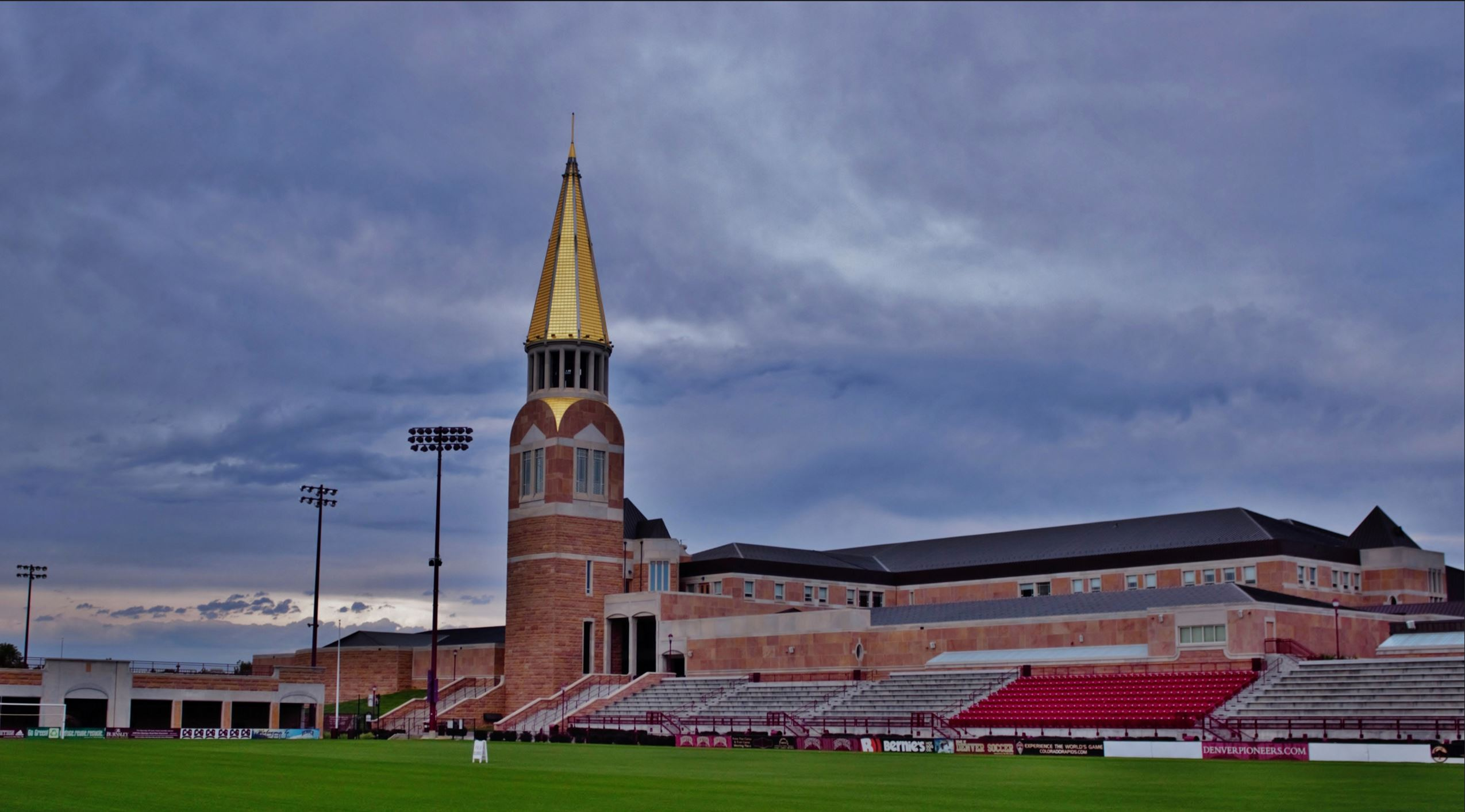 The Ritchie Center is home to many DU Pioneers athletics programs